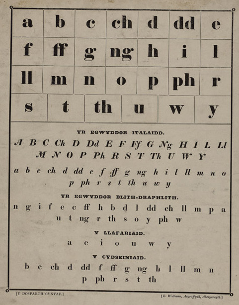 Welsh alphabet card italic